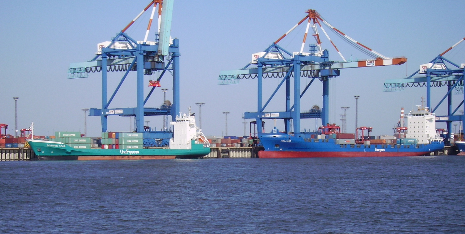 The feeder ships Bonnie Rois and Halland at the container terminal in Bremerhaven, Germany Bonnie Rois IMO Number: 9178422 MMSI Number: 211286740 Callsign: DKHV Length: 100 m Beam: 16 m Halland IMO Number: 8518558 MMSI Number: 218759000 Callsign: DFYT Length: 82 m Beam: 13 m